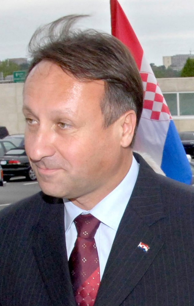 The Croatian Minister of Defense Berislav Roncevic in 2006.